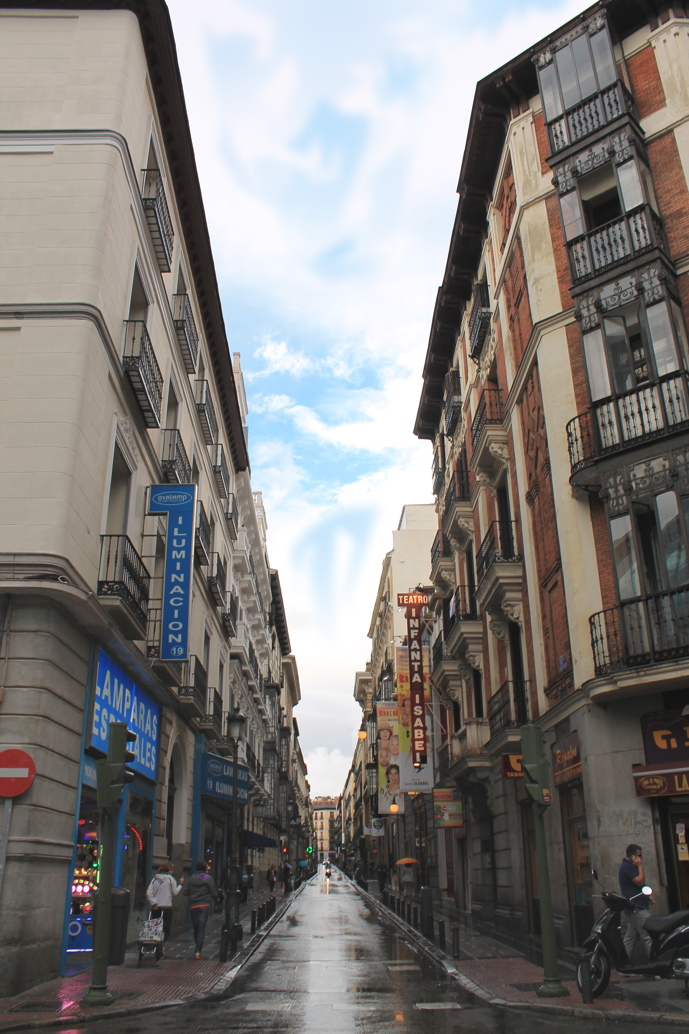 View from Calle del Barquillo (street) in Centro district in Madrid (Spain).